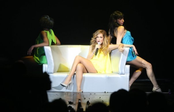 Vissi live on stage at Athinon Arena in "The Fabulous Show" in 2010